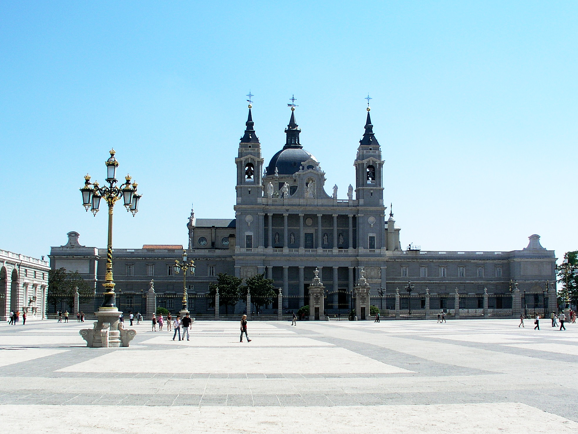 Catedral Nuestra Señora de la Almudena, view from the north (from the Palace). Madrid, Spain. The picture was taken the 23 of July 2003 by Håkan Svensson (Xauxa). Slight corrections have been done to the picture in brightness, contrast and sharpness.